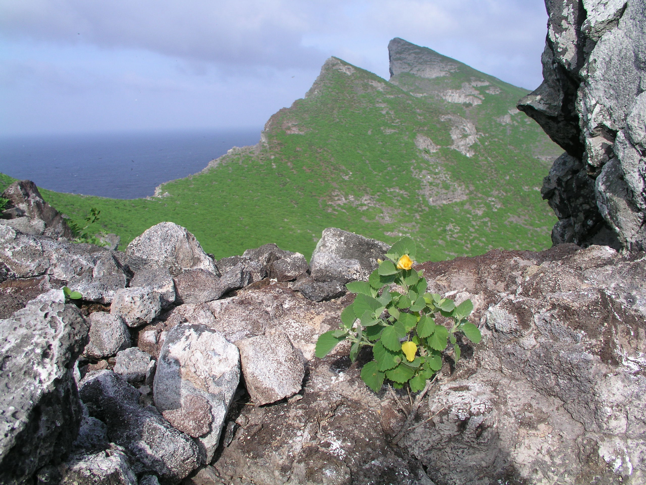 'Ilima (Sida fallax) on Nihoa Island, Northwestern Hawaiian Islands